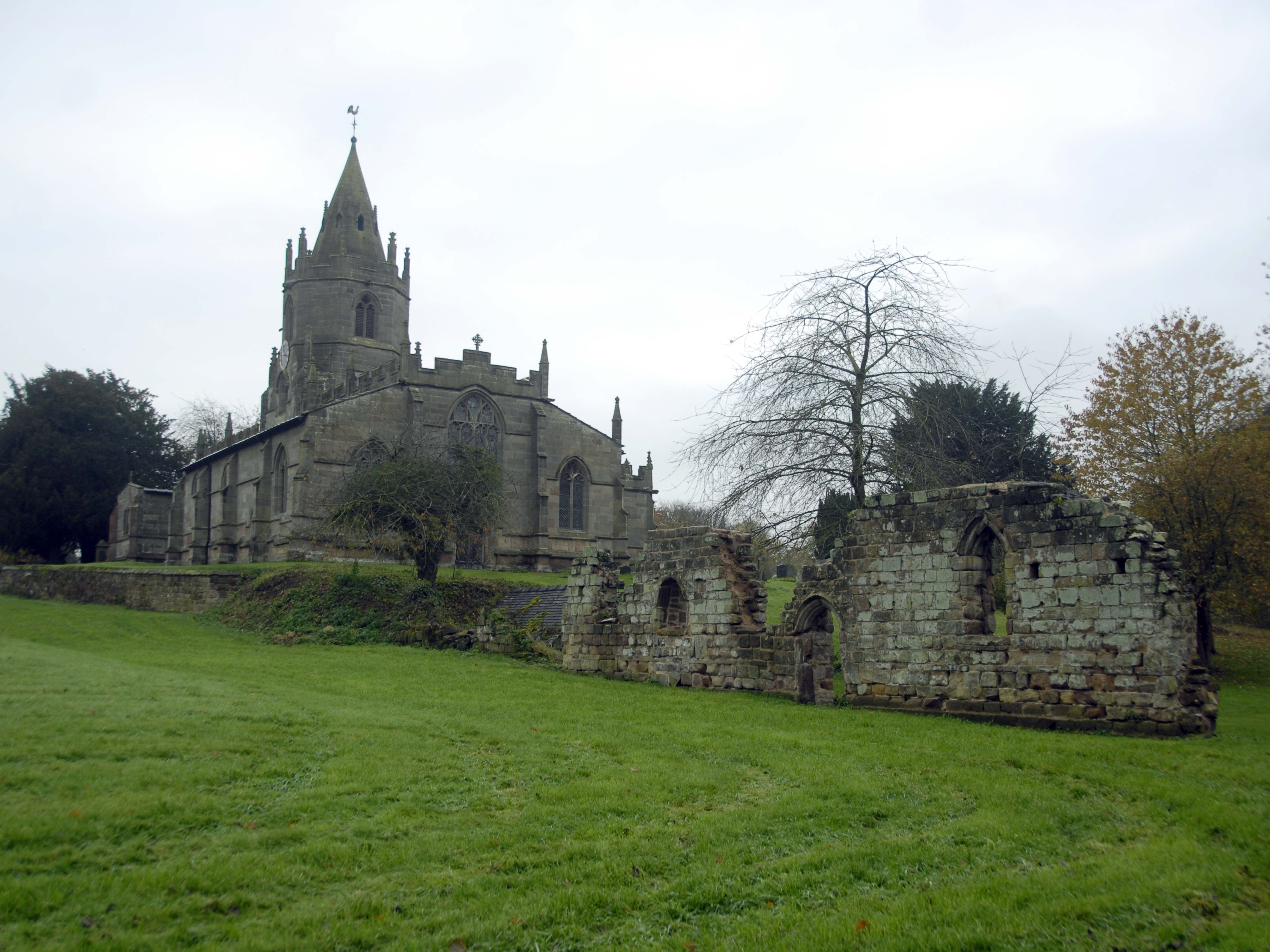 Ruin of the almshouses at Tong, Shropshire, (right), with St Bartholomew's parish church beyond (centre left)